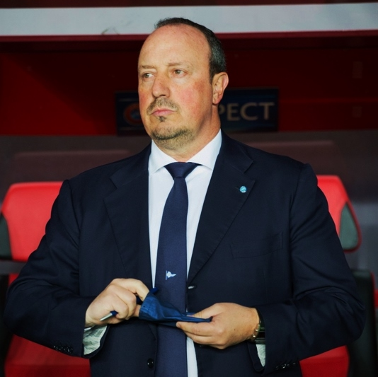 Rafael Benítez